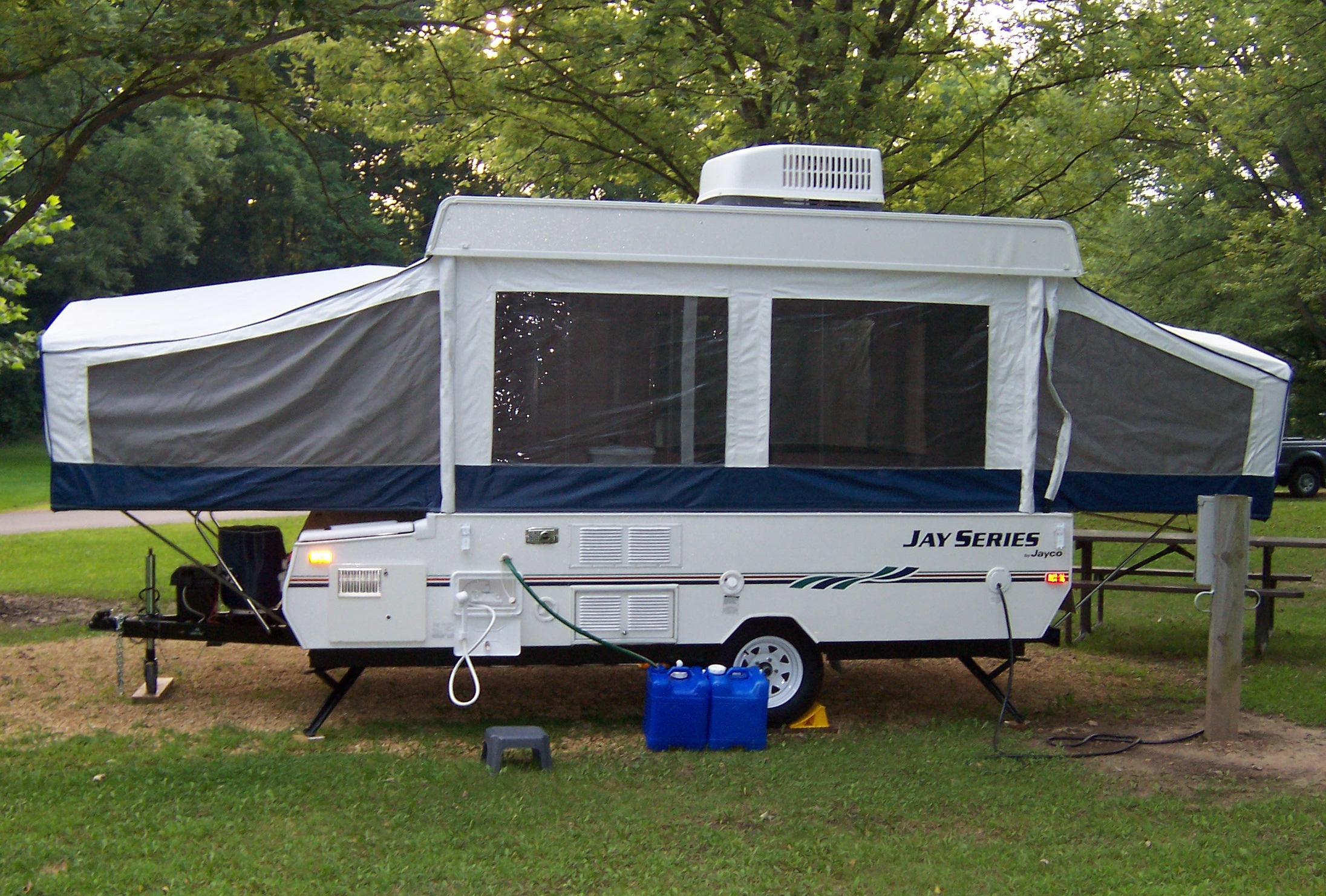 Back side of a Jayco 1006 pop-up camper trailer